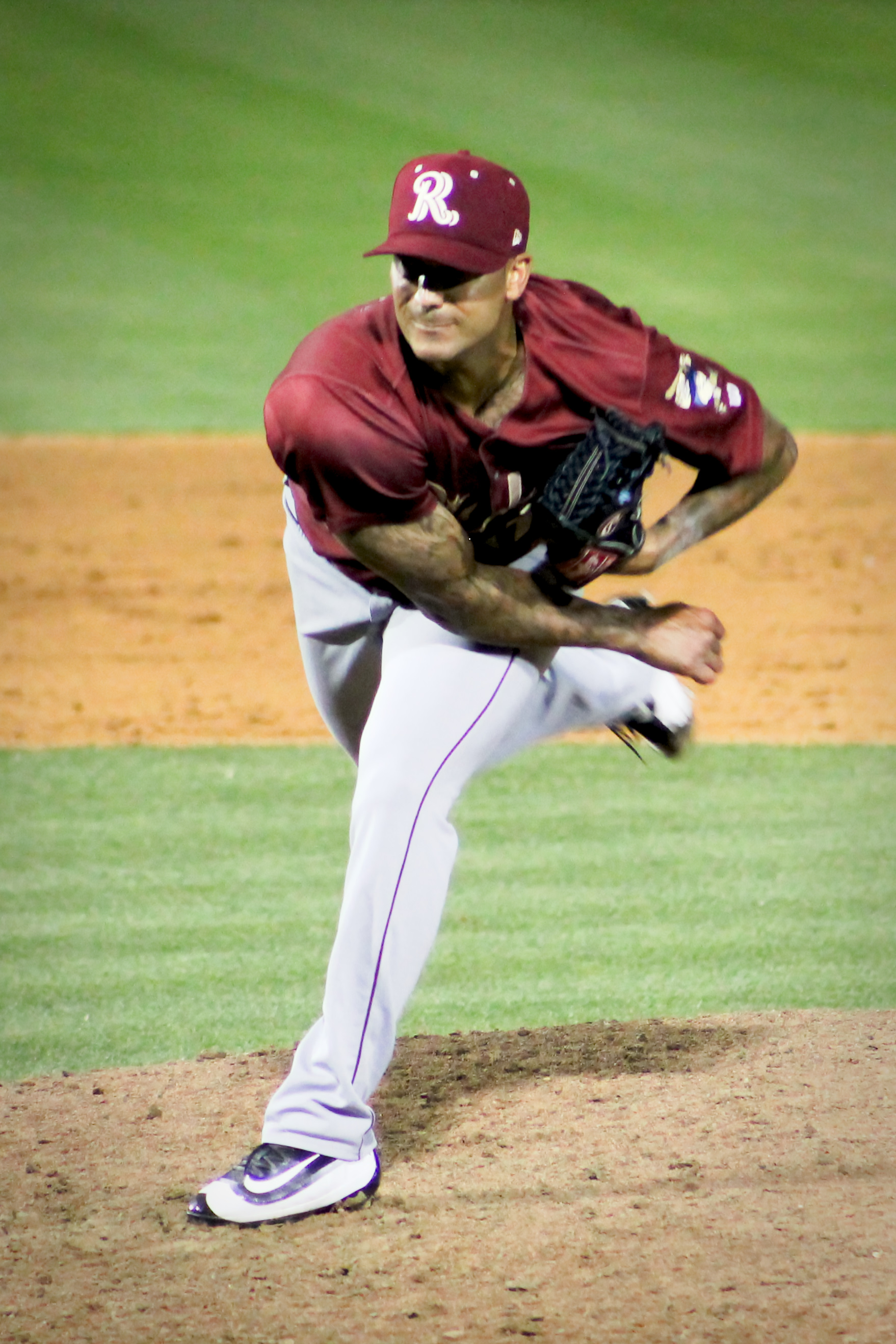 Professional baseball player Matt Bush with the Frisco RoughRiders in 2016.